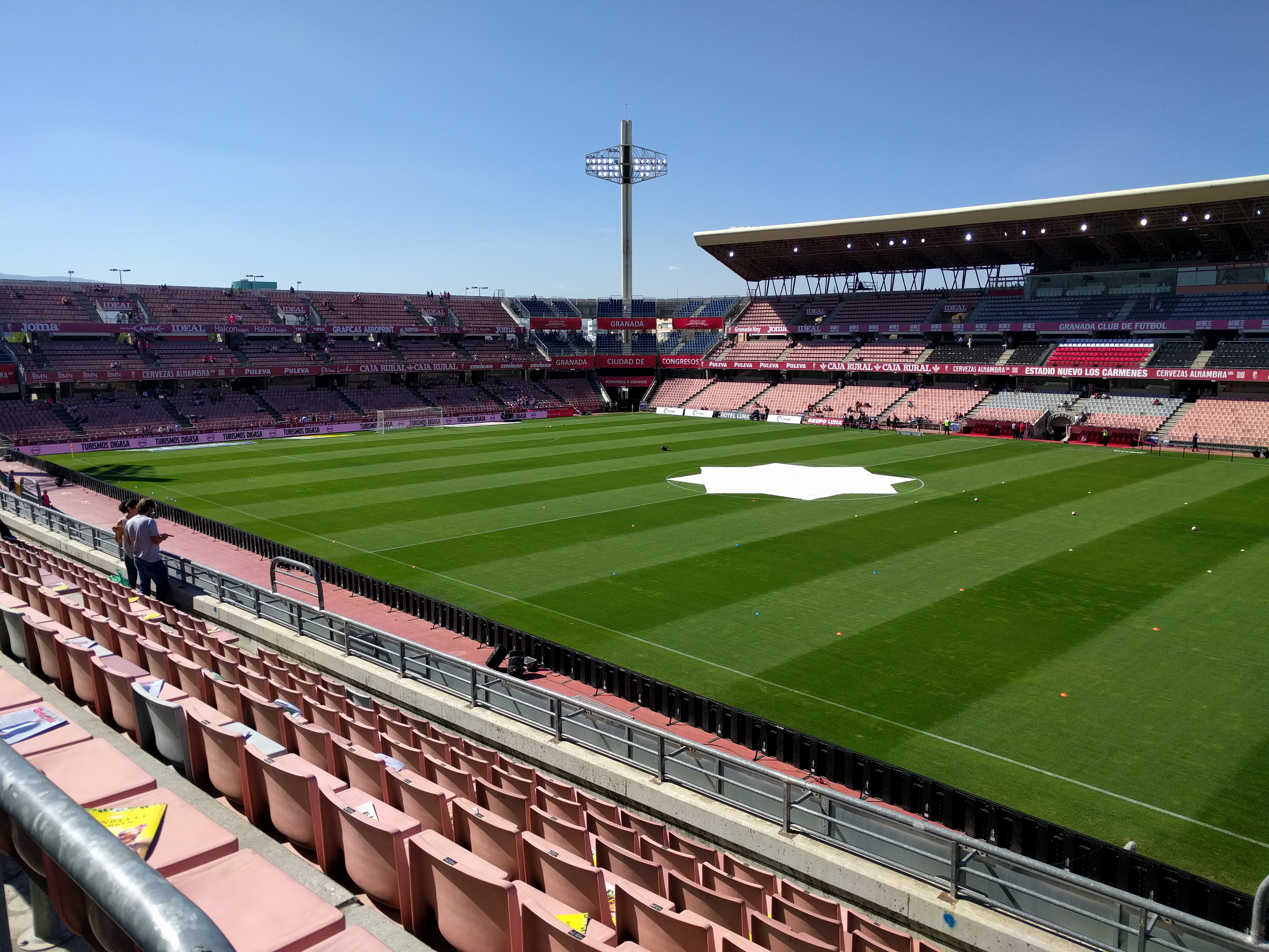 Match of Primera División, LaLiga 2016-17, Granada CF 0:1 CD Leganés, Nuevo Los Cármenes